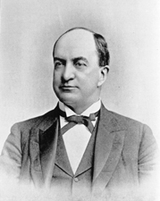 Taken from the Biographical Dictionary of the United States Congress